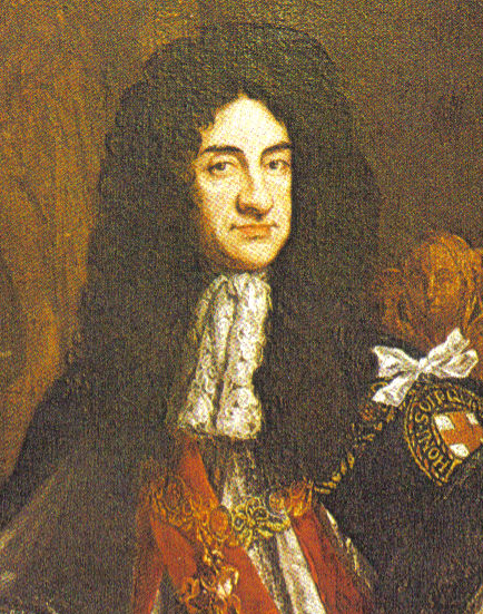 Image:CharlesIIcropped2 cropped (for real). Portrait of Charles II during his lifetime. Source: Royal Survivor by Steven Coote